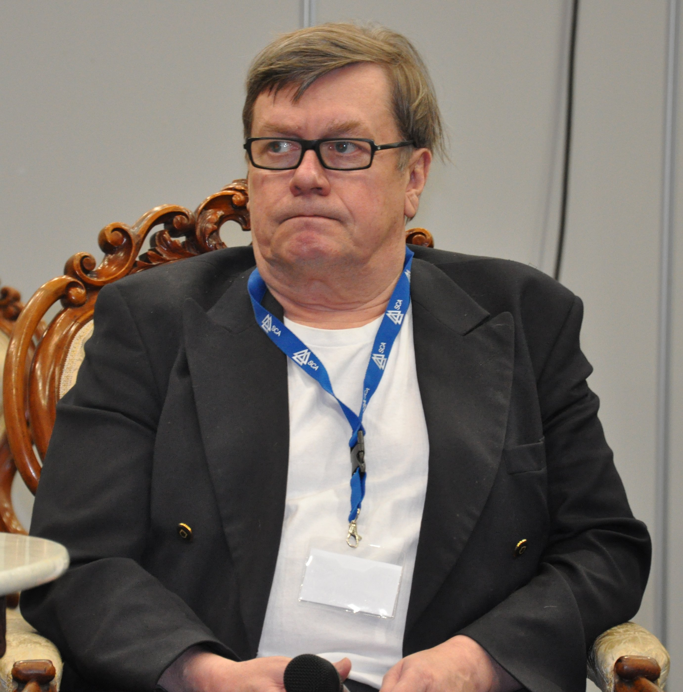 Finnish journalist and writer Ilkka Kylävaara at the Lahti Book Fair 2009.